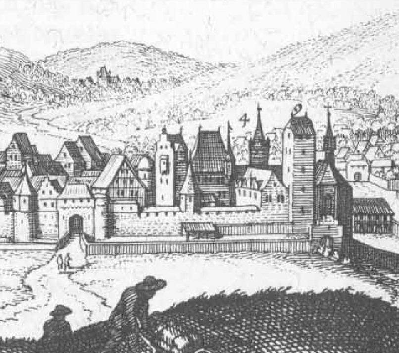 renaissance castle in Fulda